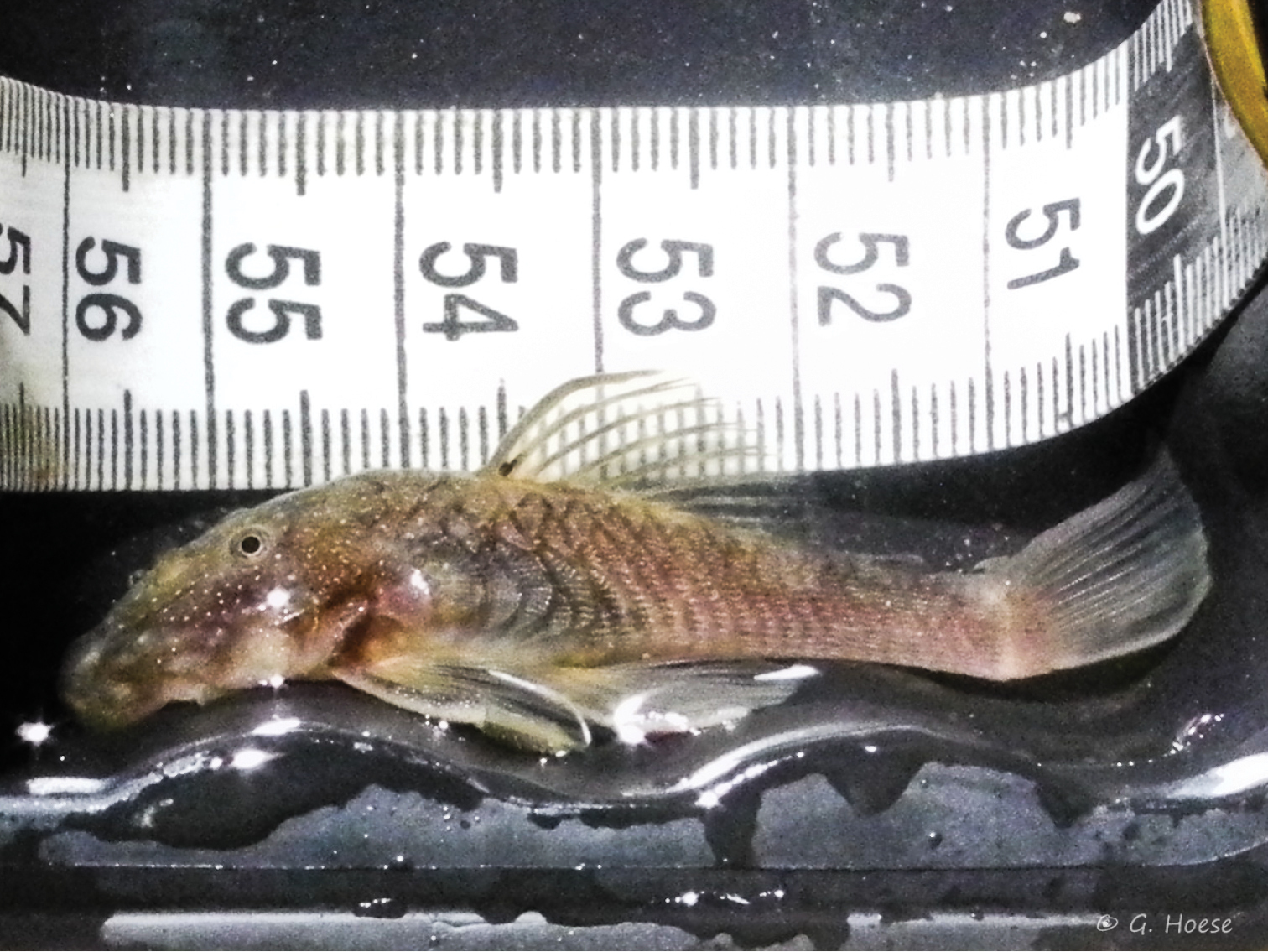 Chaetostoma microps, a cave-climbing suckermouth armoured catfish, from near Tena, Napo Province, Ecuador.